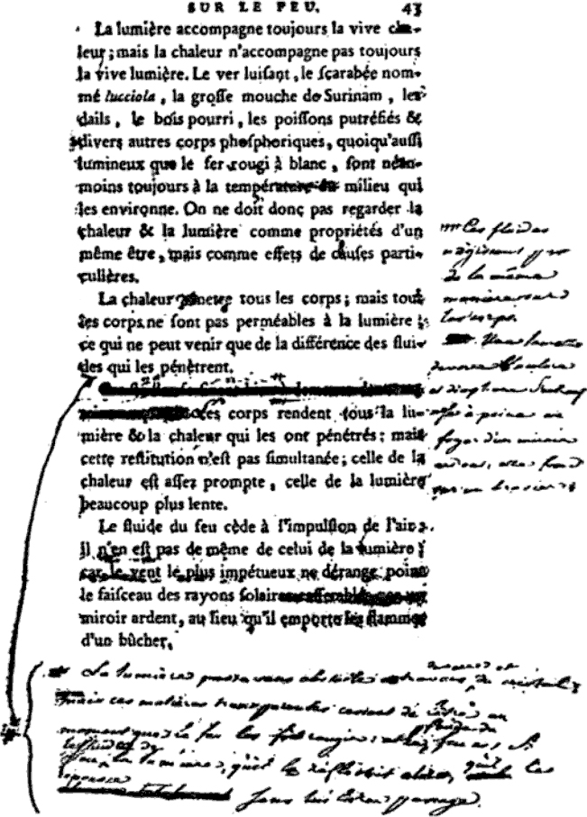 A Page of the Recherches physiques sur le Feu Proof-Read by Jean-Paul Marat.